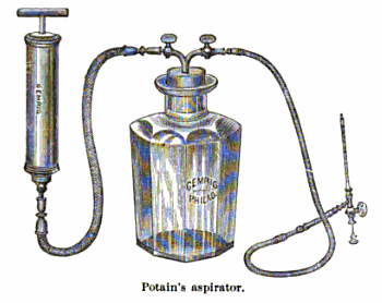 Engraving of Potain's aspirator, a medical device.